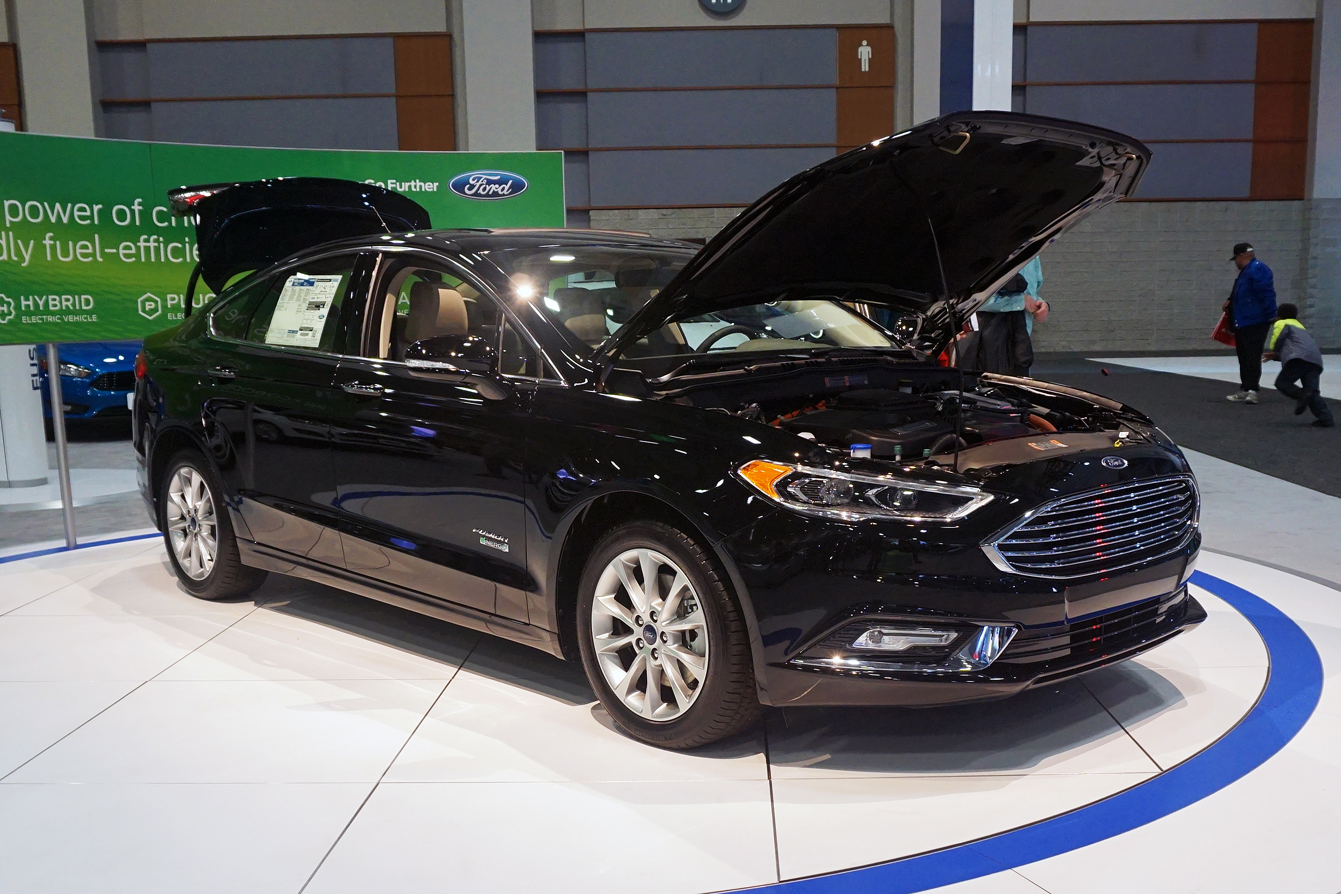 2017 Ford Fusion Energi plug-in hybrid exhibited at the 2017 Washington Auto Show, DC, US